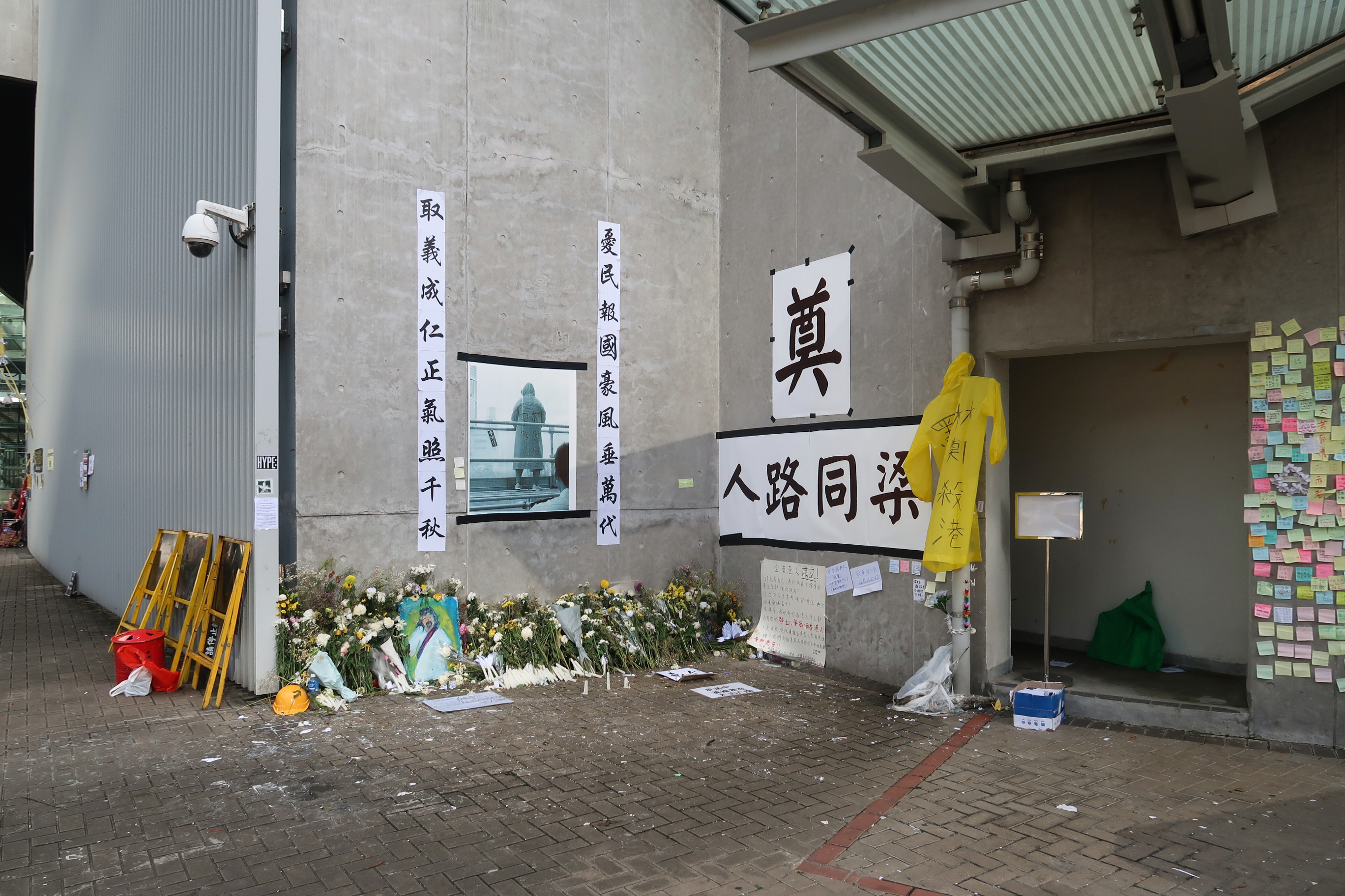 Memorial Space for the suicided protester near CGO Lennon Wall